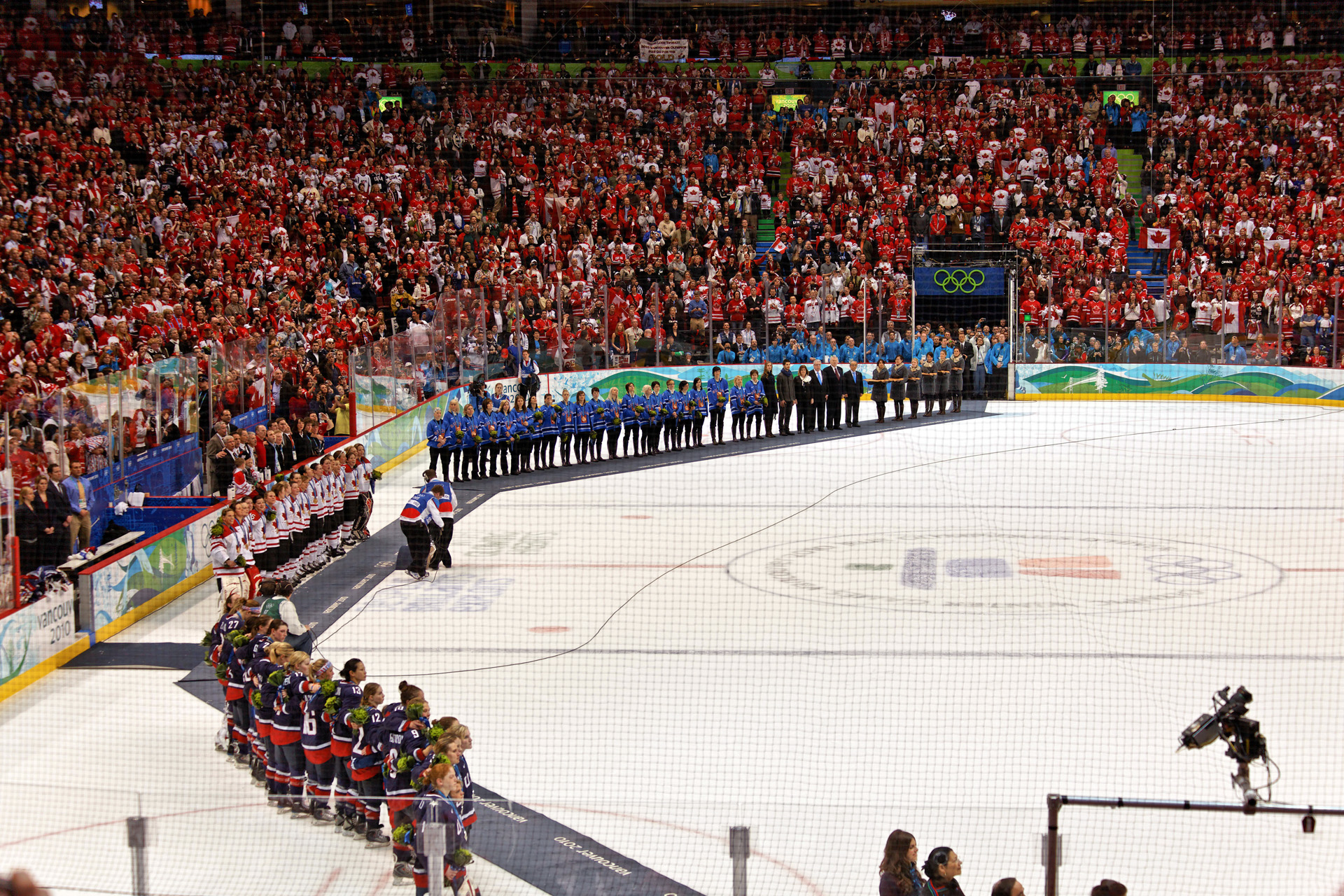 The women's ice hockey gold medal ceremony at the 2010 Winter Olympics; Canada, left middle, won the gold medal, while Finland (top) won bronze and United States (bottom) won silver.